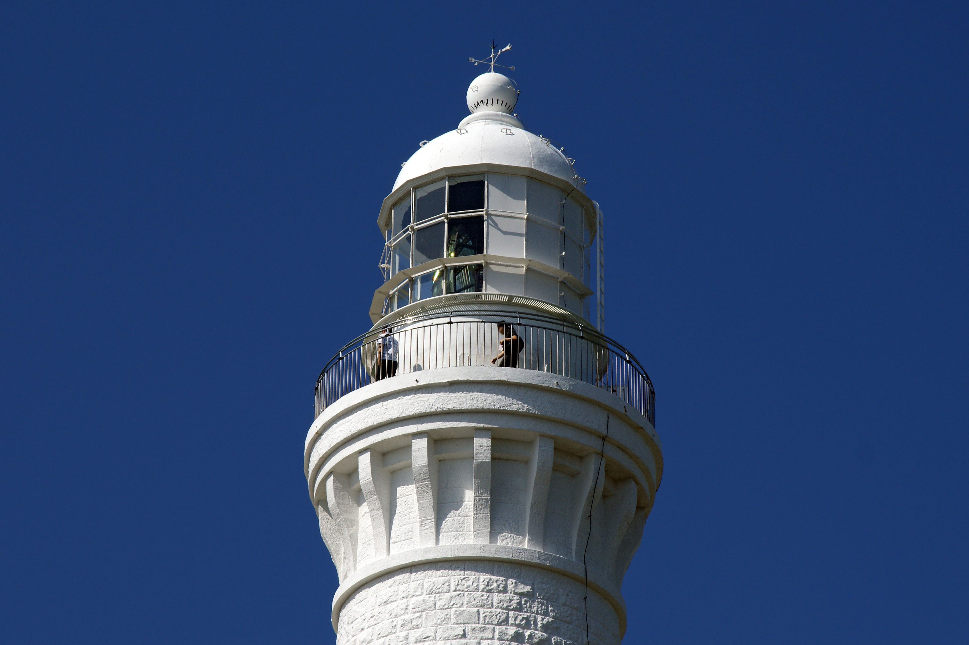 Hinomisaki Lighthouse in Izumo, Shimane prefecture, Japan